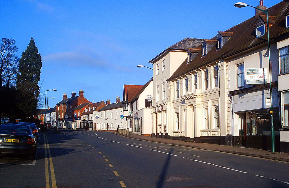 Market Hill in the town centre of Southam, Warwickshire, England. This is the main street through the town and used to be a main road before Southam was bypassed. At the left is the site of the old town market.